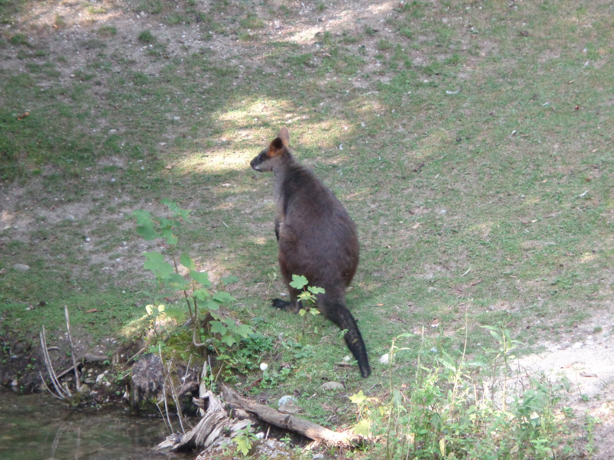 Hellabrunn Zoo, Munich, Germany - kangaroo from the back side